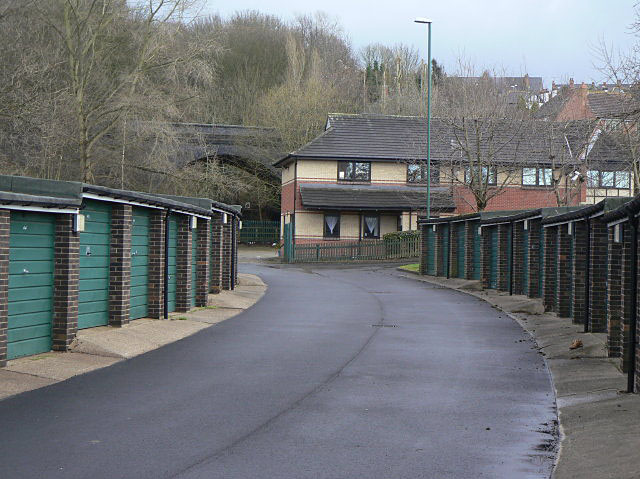 Sherwood Station site Without the bridge in the background, there would be no clue to the fact that 60 years ago I would have been standing in the middle of a railway.